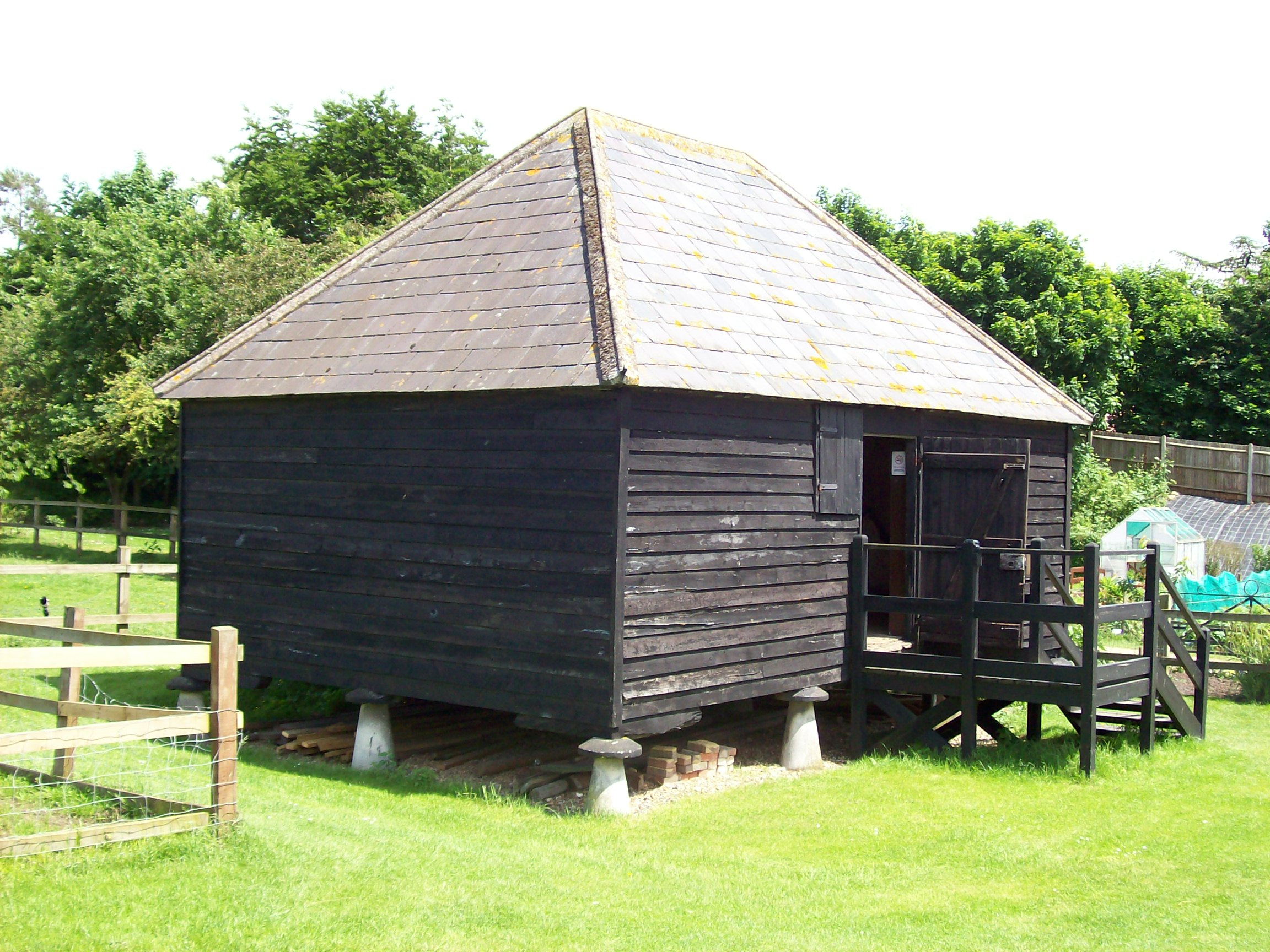 The granary at the Museum of Kent Life